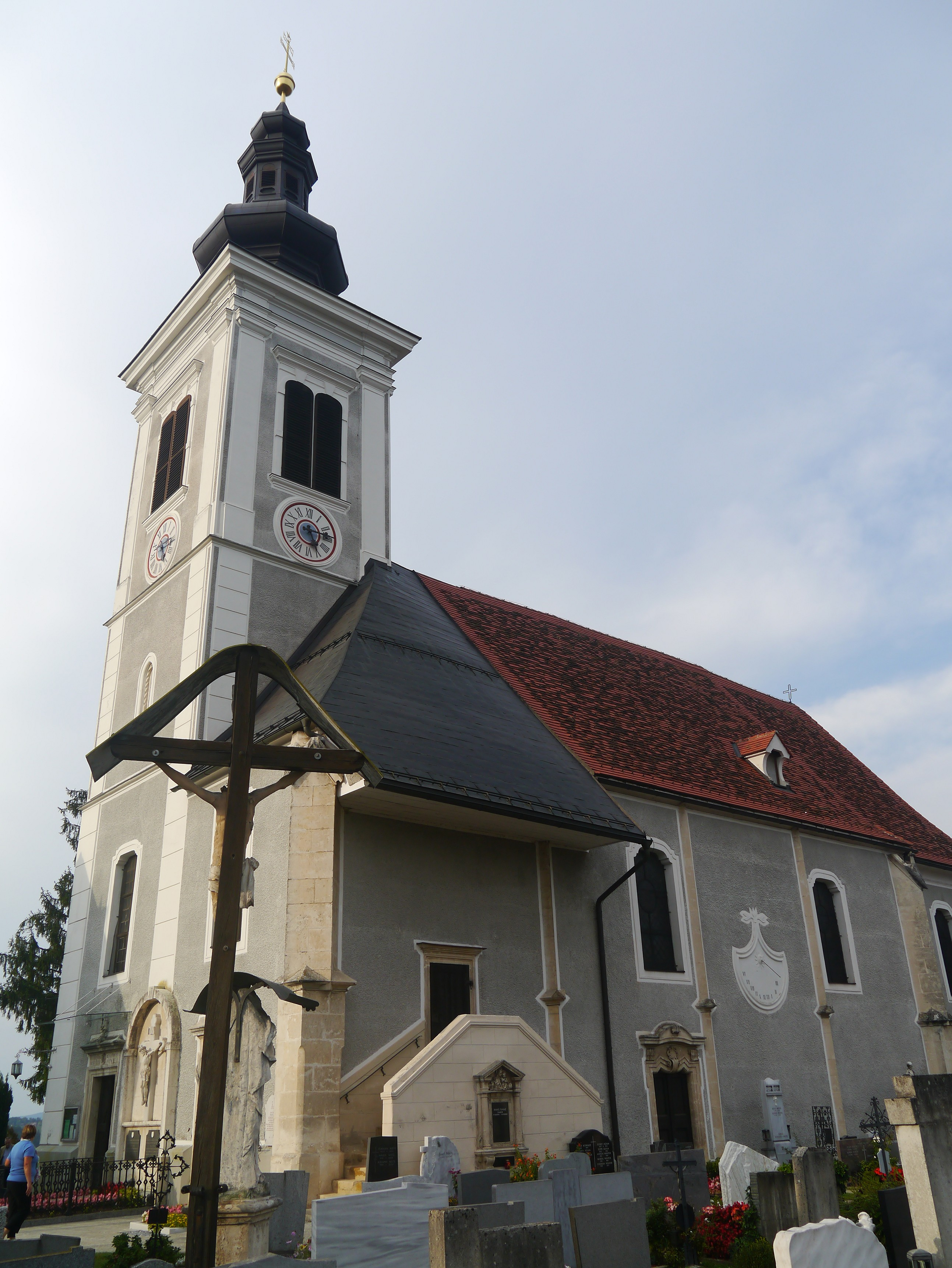 Frauenberg Pilgrimage Church, Seggauberg